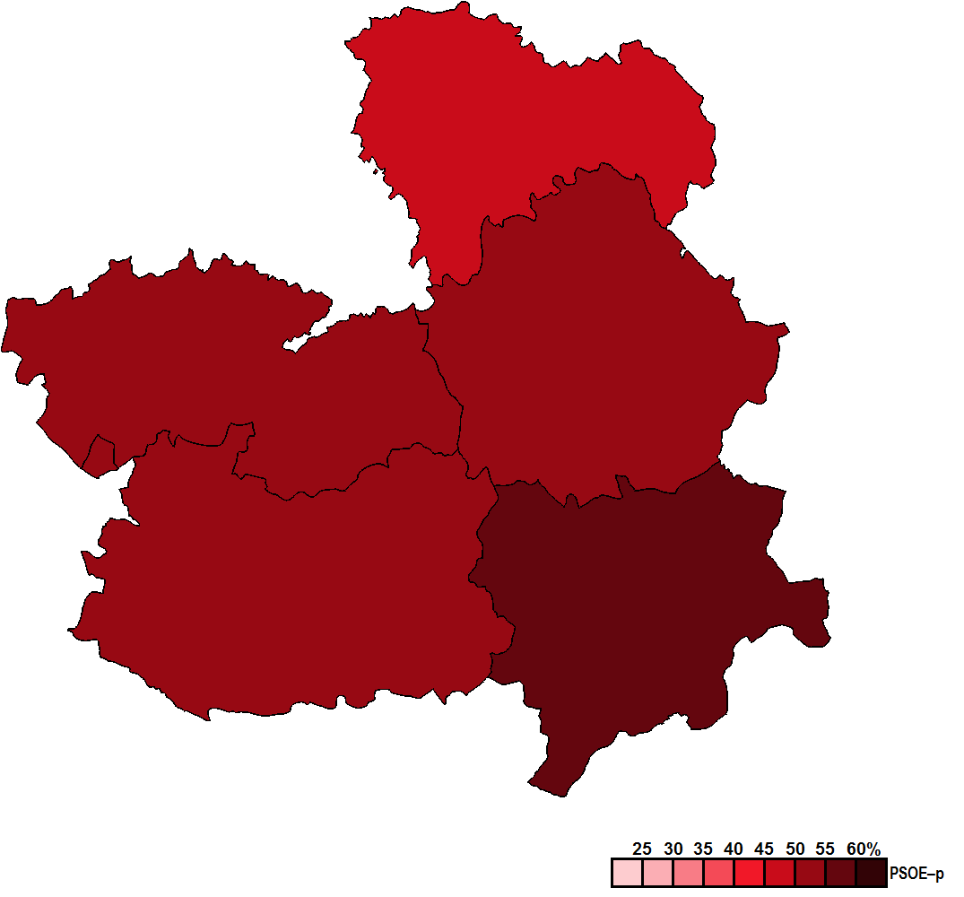 Provincial results for the 1999 Castilian-Manchegan regional election.